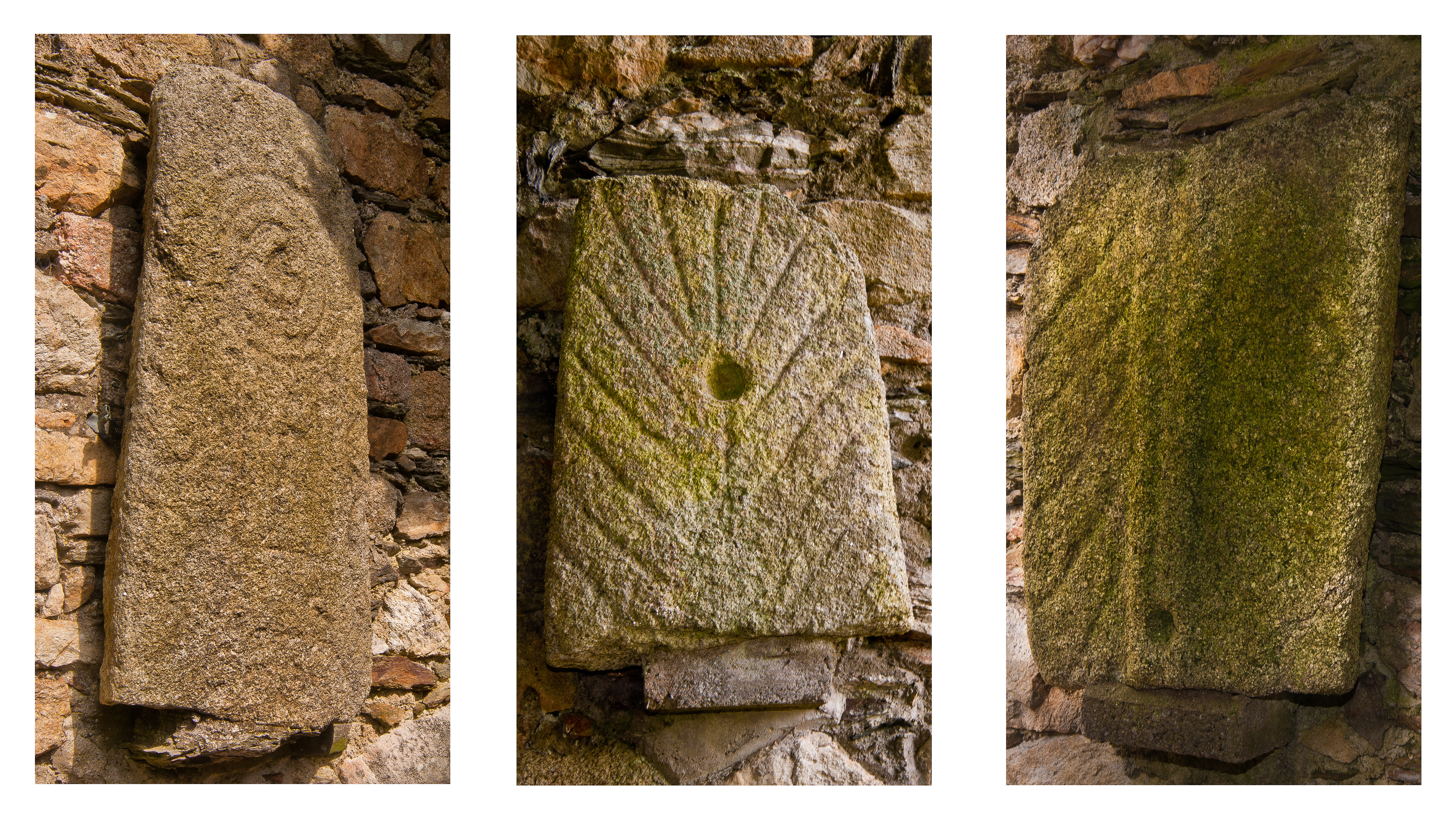 Three examples of Rathdown Slabs - Viking grave slabs - to be found at Rathmichael Old Church, County Dublin, Ireland